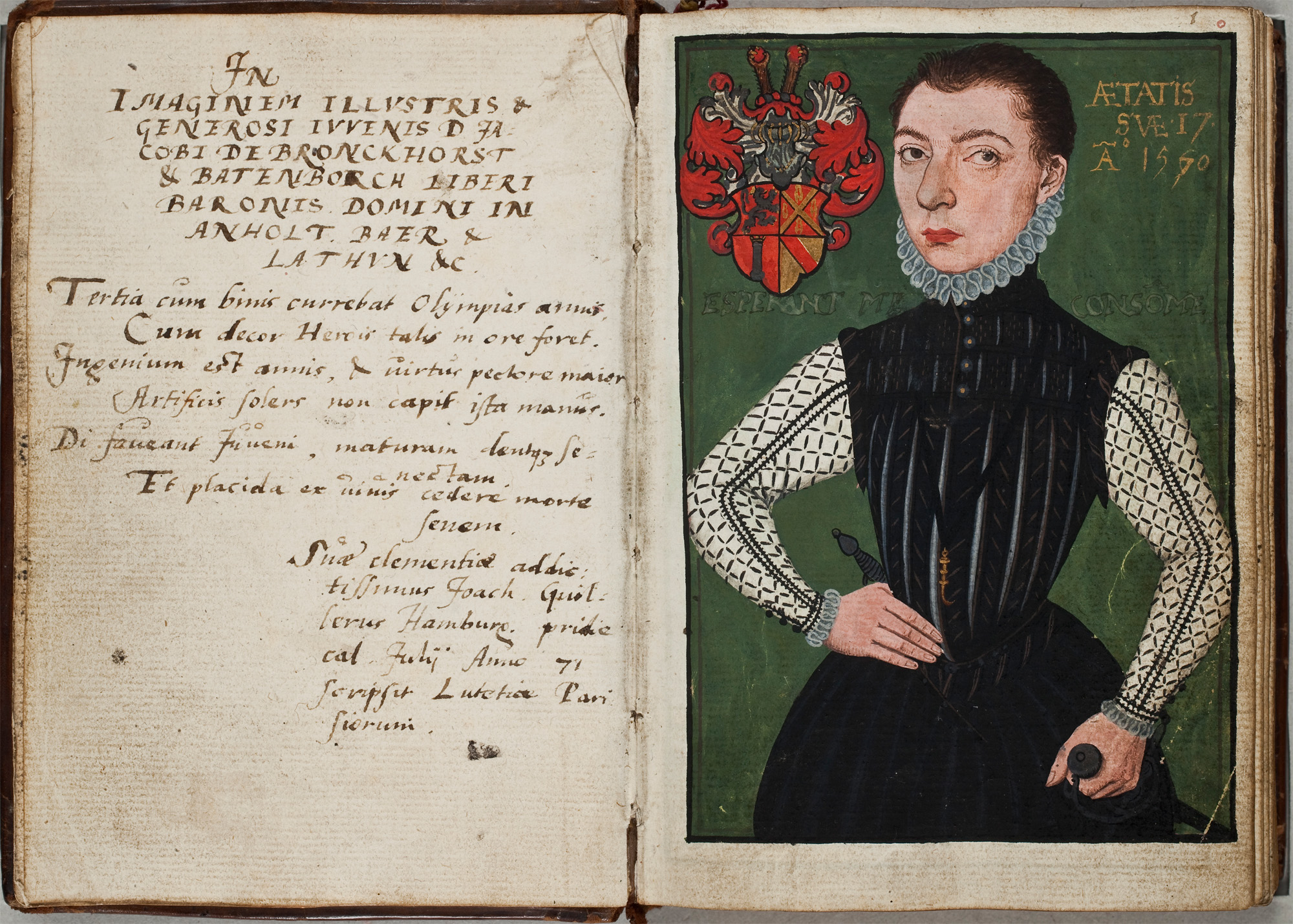 Album amicorum van Jacob van Bronckhorst van Batenburg, f. IIr+1r: Jacob van Bronckhorst van Batenburg en N.N., Douai, 1571 Zie ook: Image uploaded on 02-10-2013 from the Flickr stream of the Royal Library, The Hague (Koninklijke Bibliotheek, KB, national library of the Netherlands)